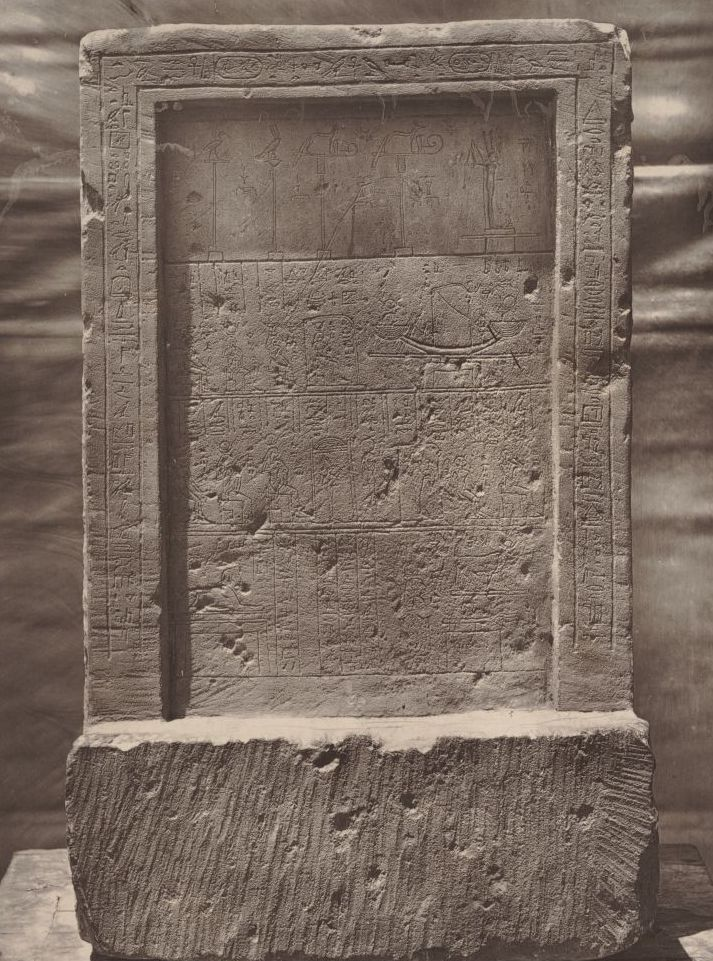 A stele describing the building projects of Cheops. Black-and-white photograph.